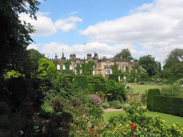 Renishaw Hall Derbyshire